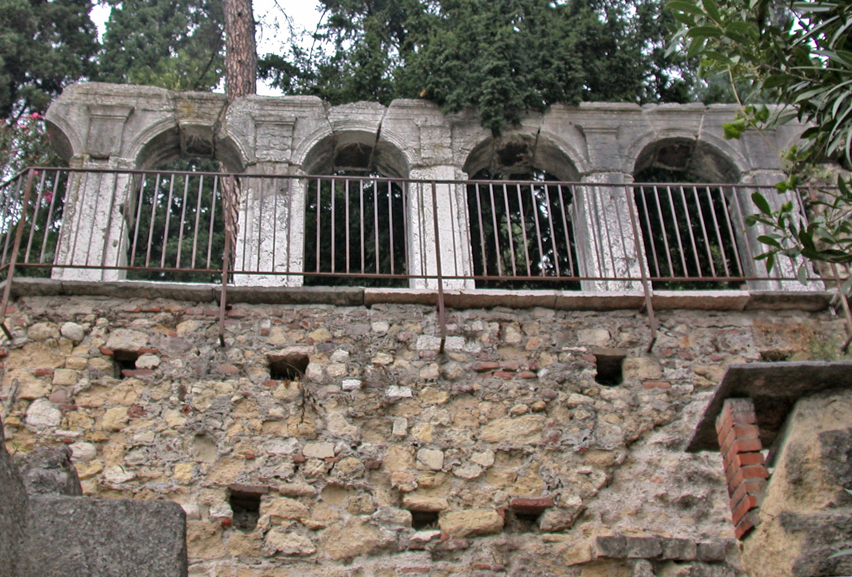 Verona, Ancient roman theater.